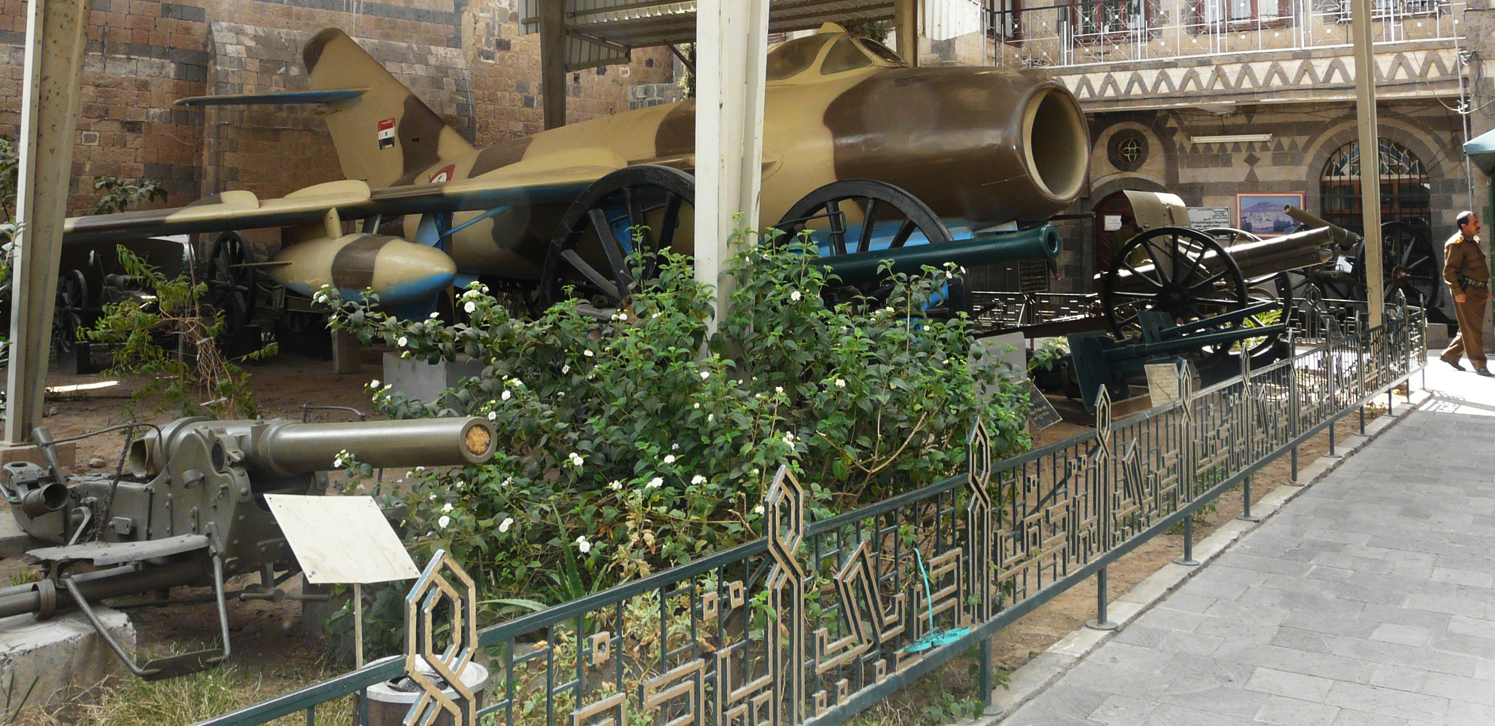 Some Yemeni antiques in the military museum of Yemen (in Sana'a).